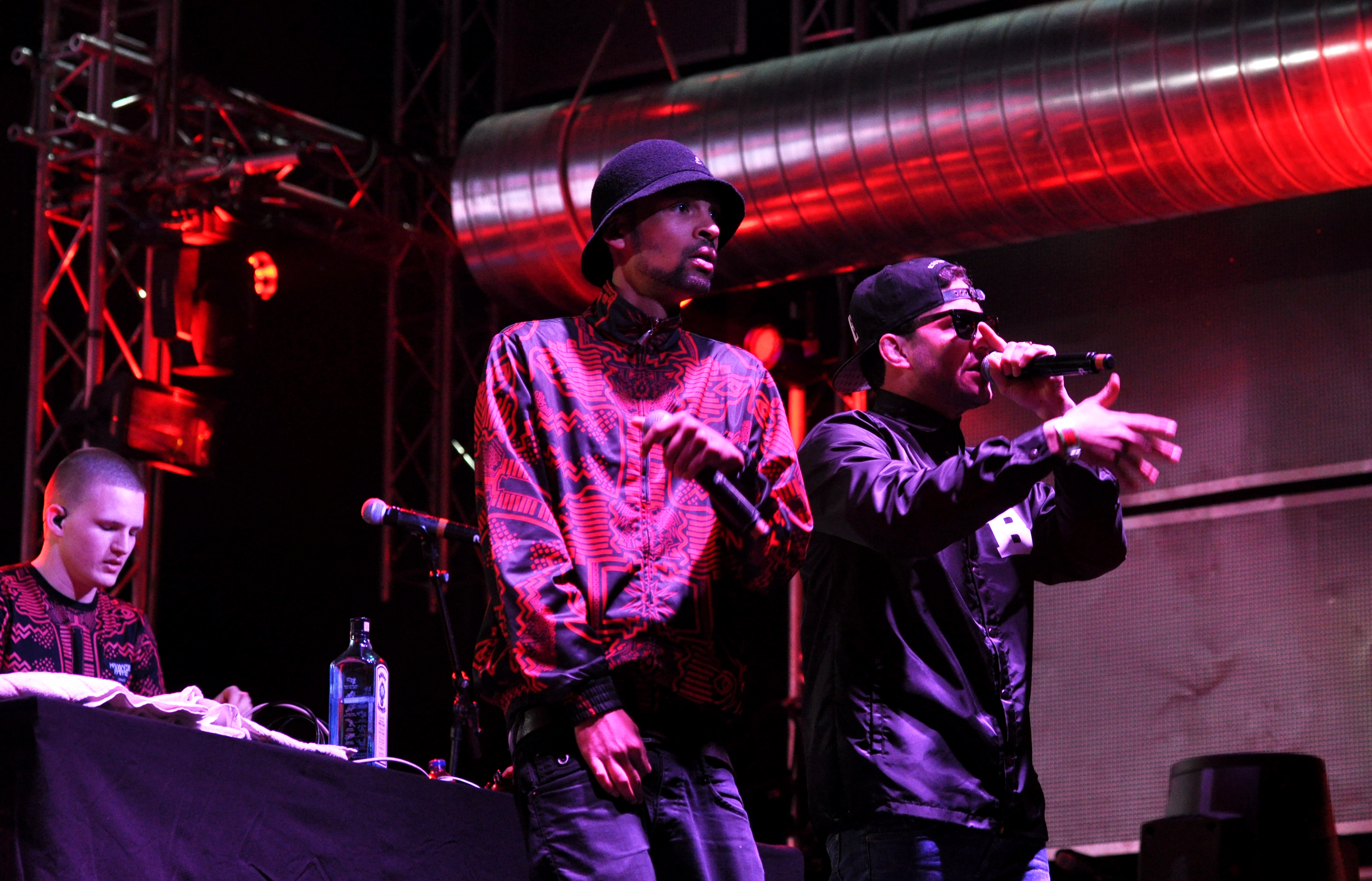 Kraantje Pappie at Paaspop 2014